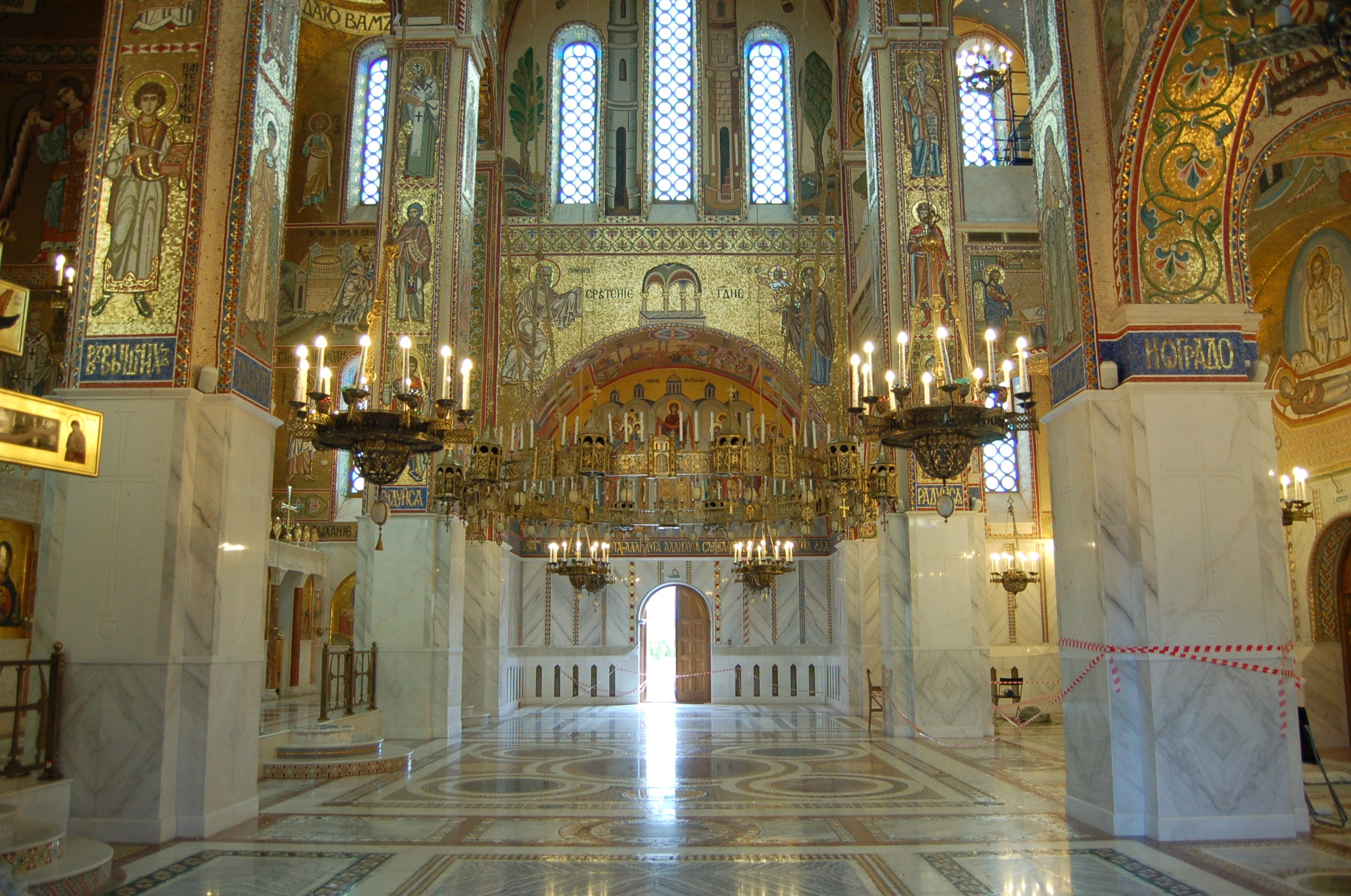 Moscow Churches, photographed September 2015 Church of the Protection of the Mother of God, Yasenevo (photographed while still under construction)